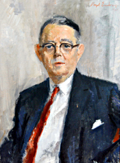 Robert B. Chiperfield, US Representative from Illinois